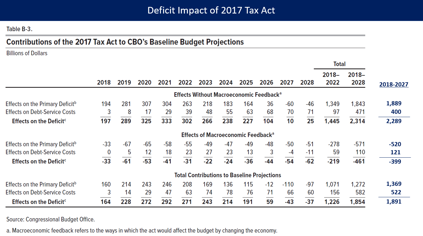 2017 Tax Act Impact on Budget Deficits 2018-2028